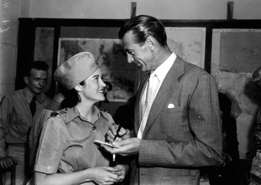 Gary Cooper signing an autograph for a servicewoman in Brisbane, Australia, November 1943